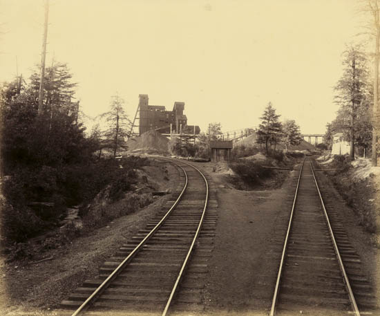 The Lattimer Colliery along the Lehigh Valley Railroad in Luzerne County, Pennsylvania, photographed circa 1890 by William H. Rau.